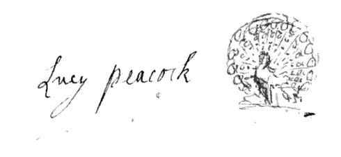 Lucy Peacock's signature and picture of a peacock from a signed copy of The Adventures of the Six Princesses of Babylon